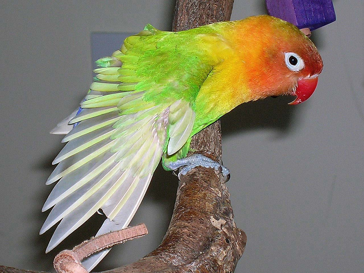 Fischer's lovebird, with its wing spread